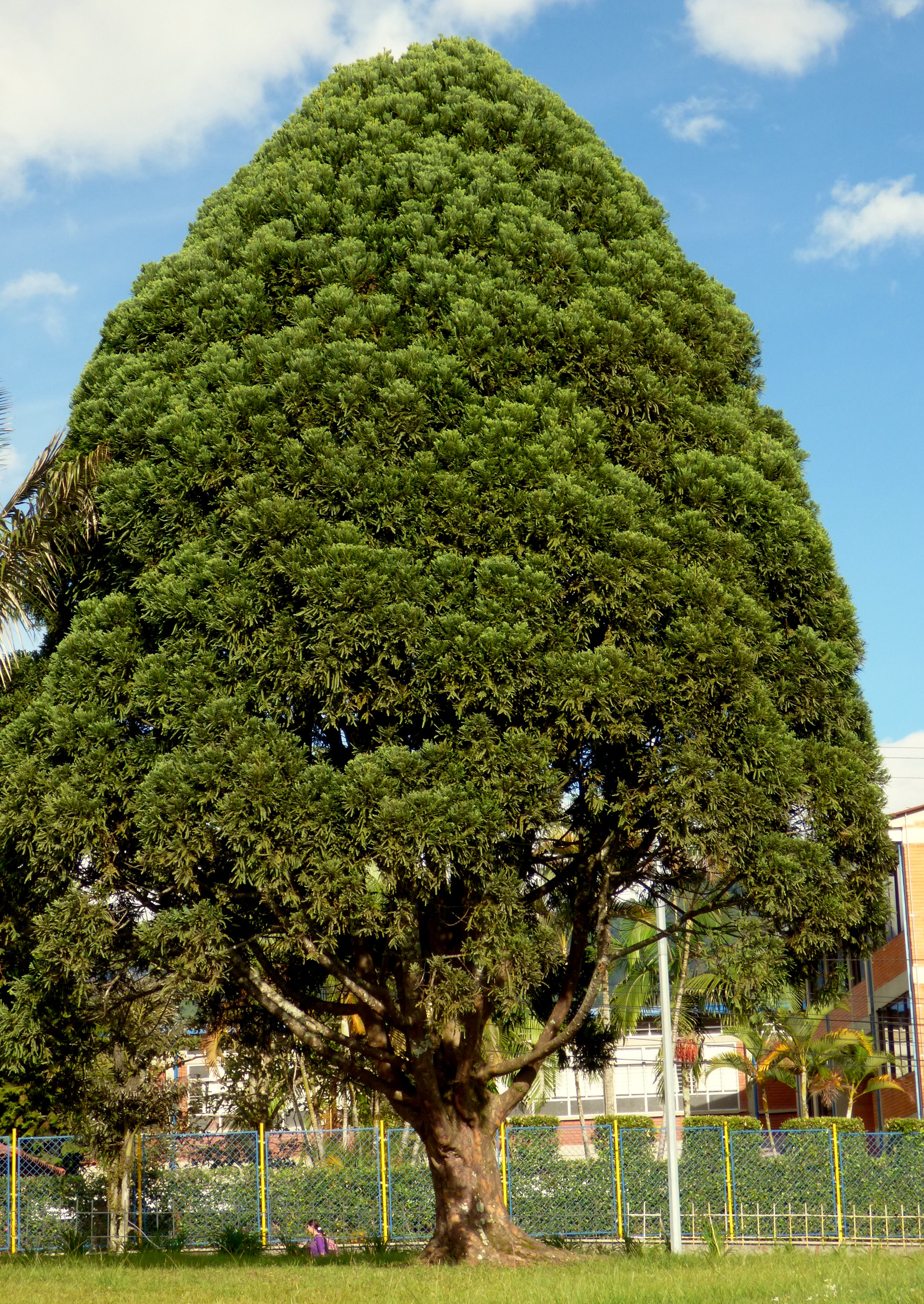 A Colombian Retrophyllum rospigliosii.